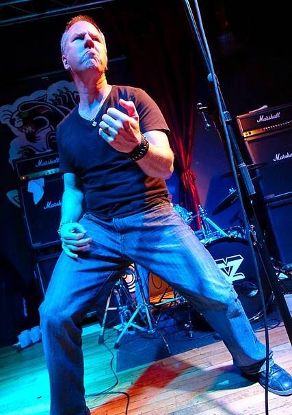 Kyle Thomas, current singer of Trouble performing with Trouble in Lombard, Illinois